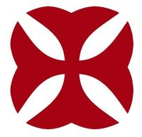 Kreimist Cross used by the Lebanese Maronite Missionaries